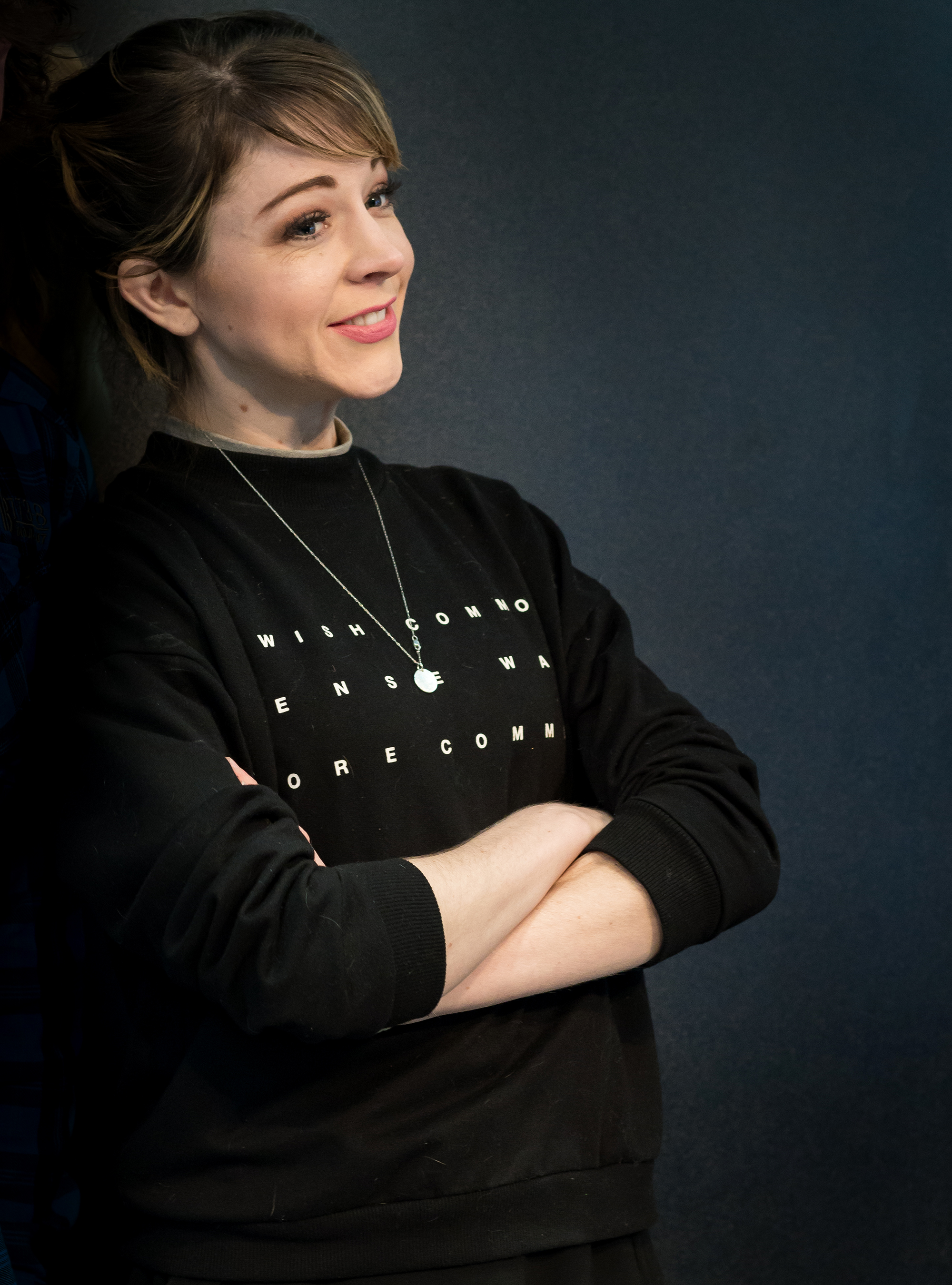 Lindsey Stirling meet & greet appearance at the Winter NAMM Show 2018 in Anaheim, California, on Friday, January 26, 2018.